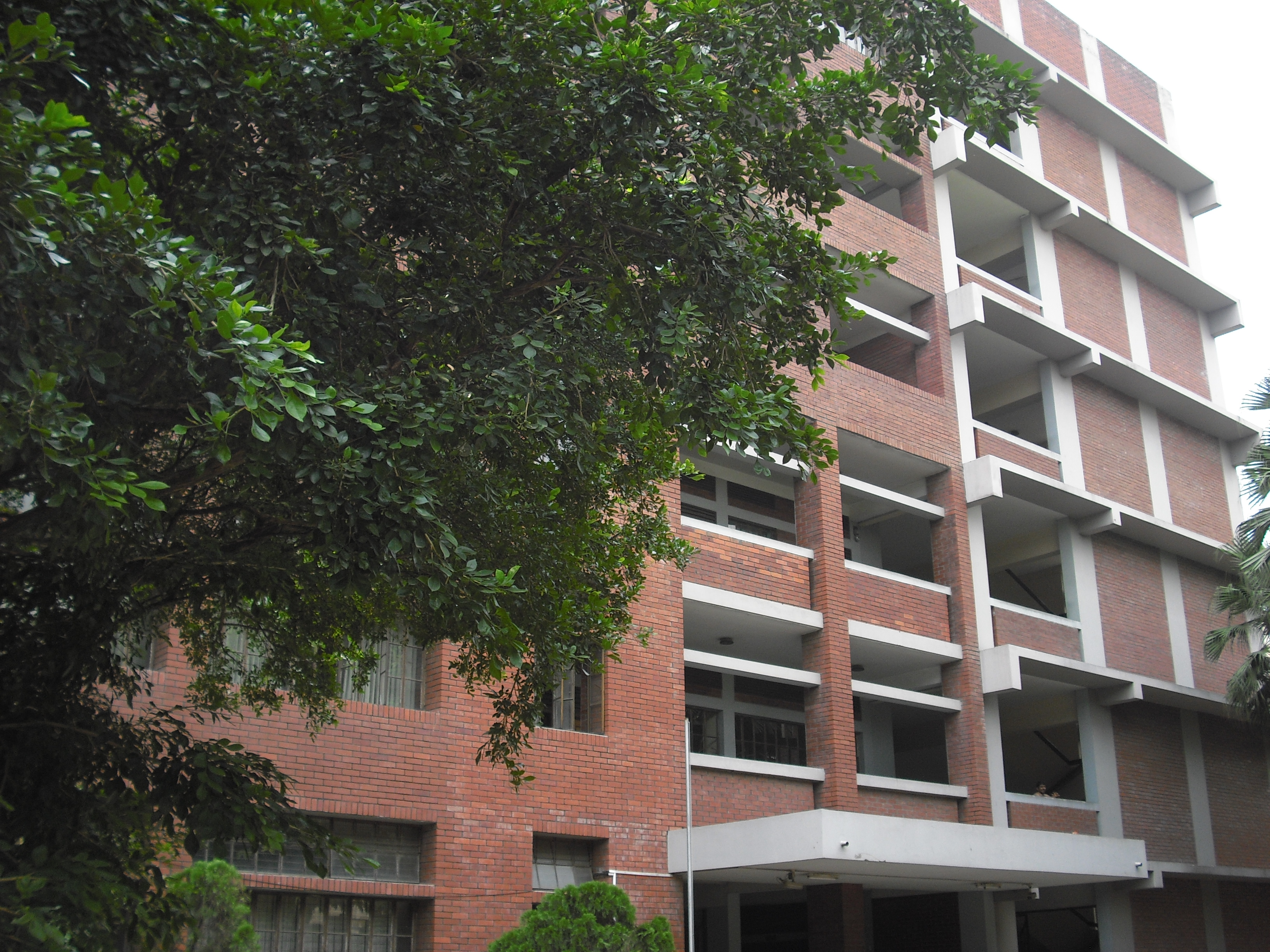 It's the main academic building of Notre Dame College, Dhaka.